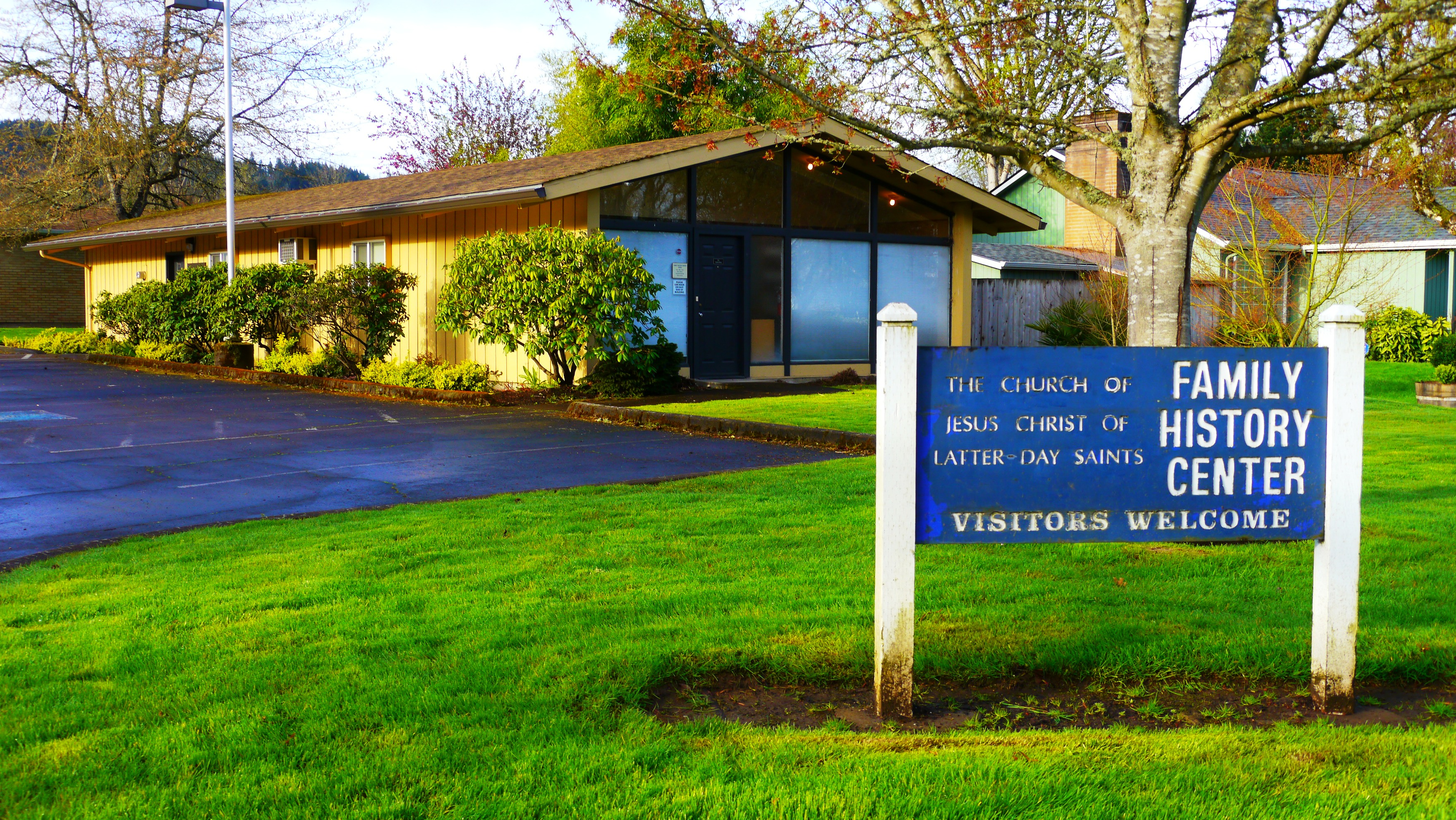 The Eugene Family History Center is located at the Church of Jesus Christ of Latter Day Saints campus at 3500 W. 18th Avenue in Eugene, Oregon. (